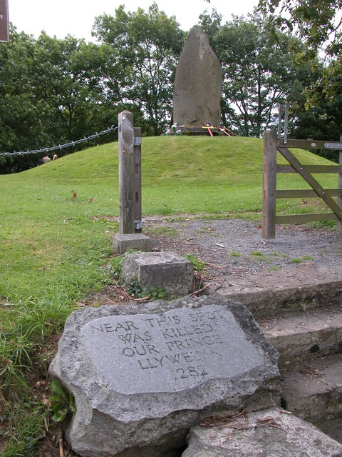 Monument to Prince Llywelyn The Monument is to the last true Prince of Wales, Prince Llywelyn who was killed near Cilmery on 11 December 1282.